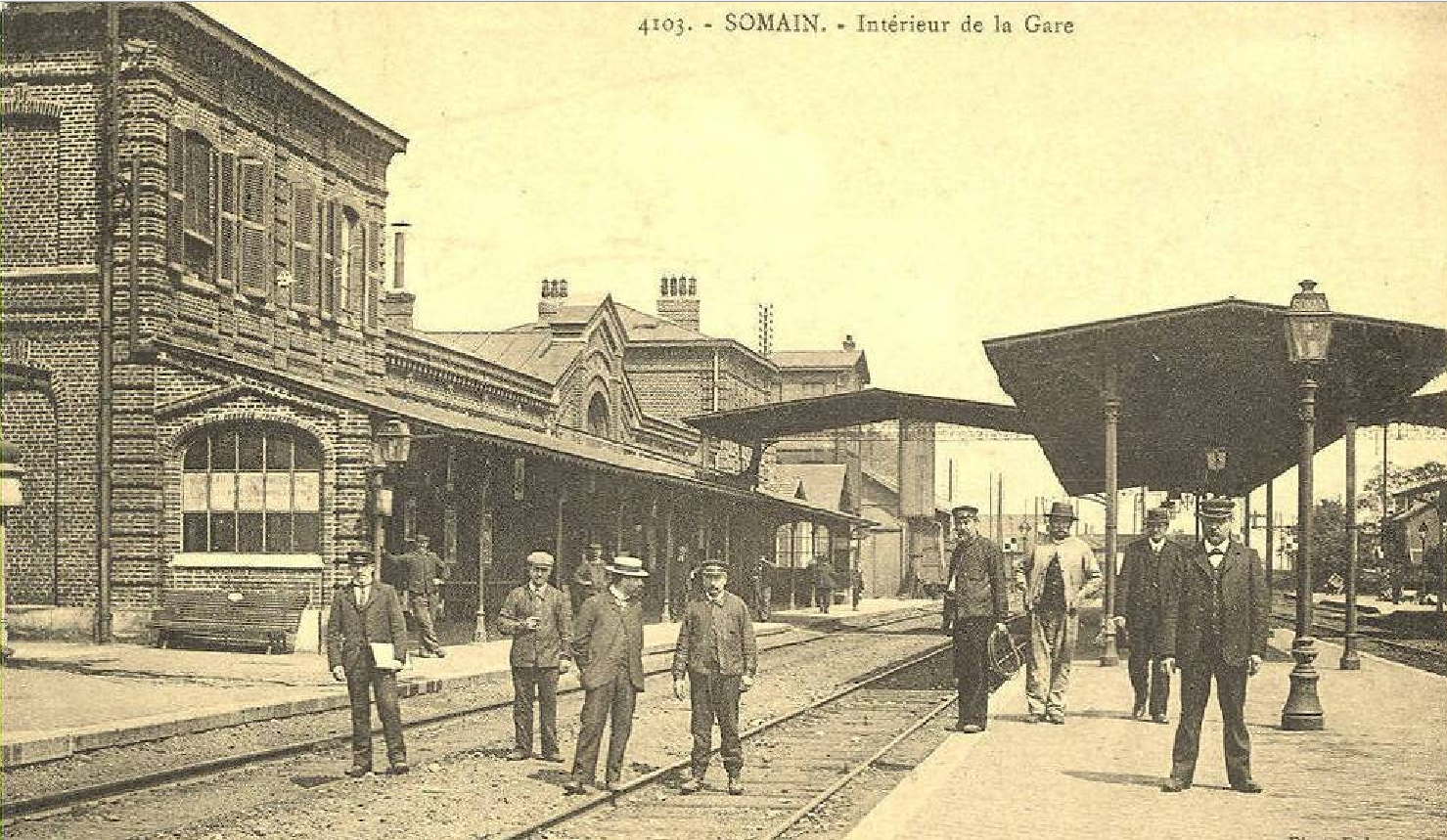 Somain, Nord-Pas-de-Calais, France.